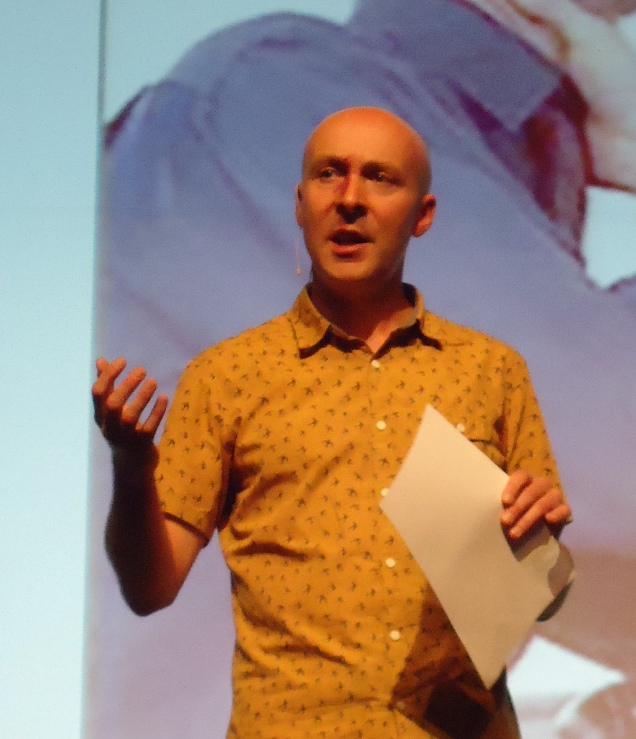 Chris Brookmyre, author, at "Bloody Scotland" Crime Writing Festival